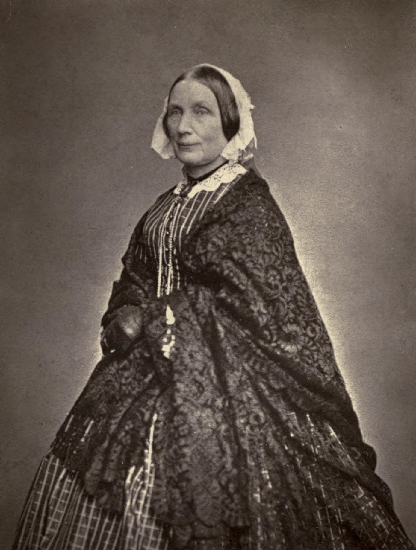 Mary Howitt